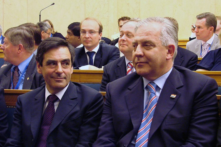 Croatian PM Ivo Sanader with French PM Francois Fillon